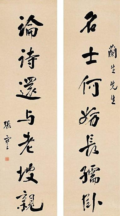 Chinese couplets by Zhang Jian